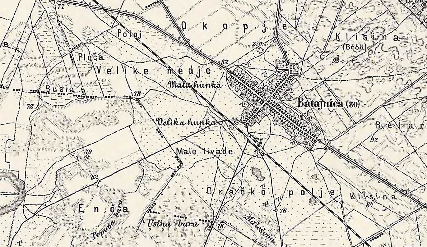 Some kurgans near Batajnica, Srem